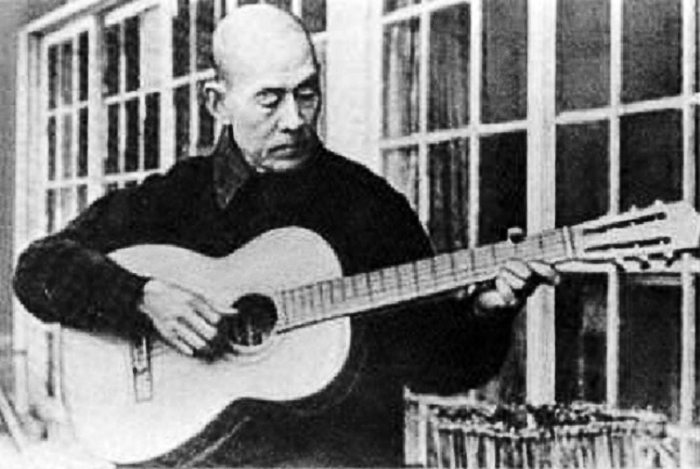 Shigeyoshi Inoue (1889–1975)